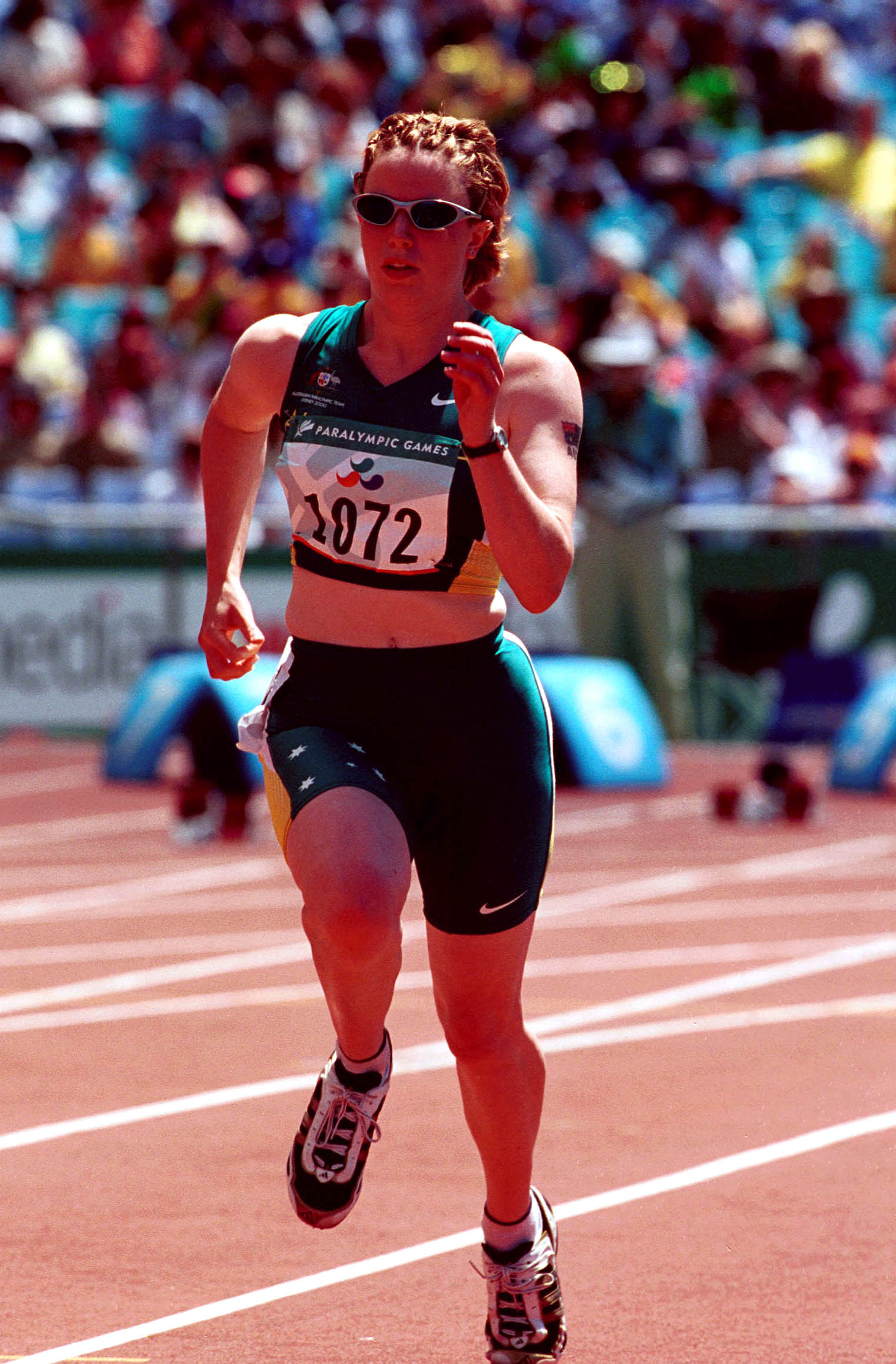 Action shot of Australian track athlete Alison Quinn sprinting during the 100 m T38 event at the 2000 Sydney Paralympic Games, Day 07. She won gold in this event.